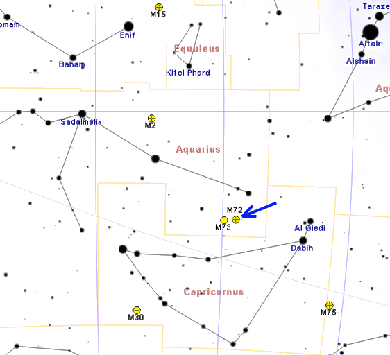 Map of M72